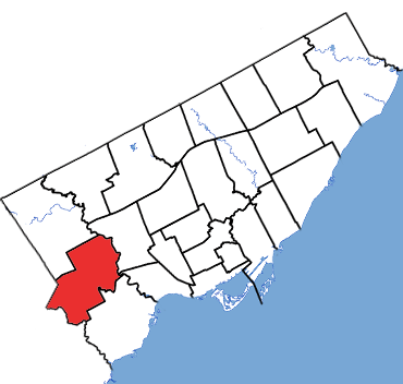 Etobicoke Centre in relation to the other Toronto ridings (2015 boundaries)